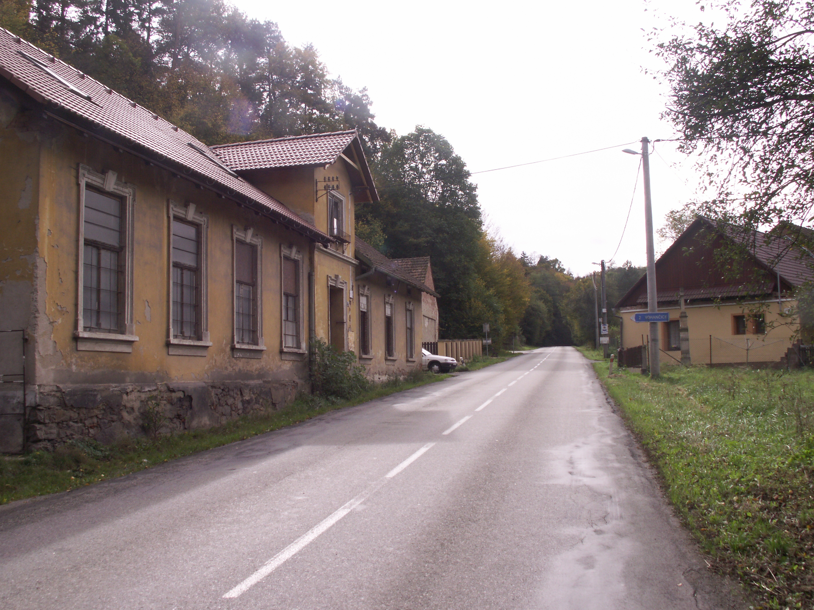 KONICA MINOLTA DIGITAL CAMERA, osada Závist, část obce Předklášteří, okres Brno-venkov